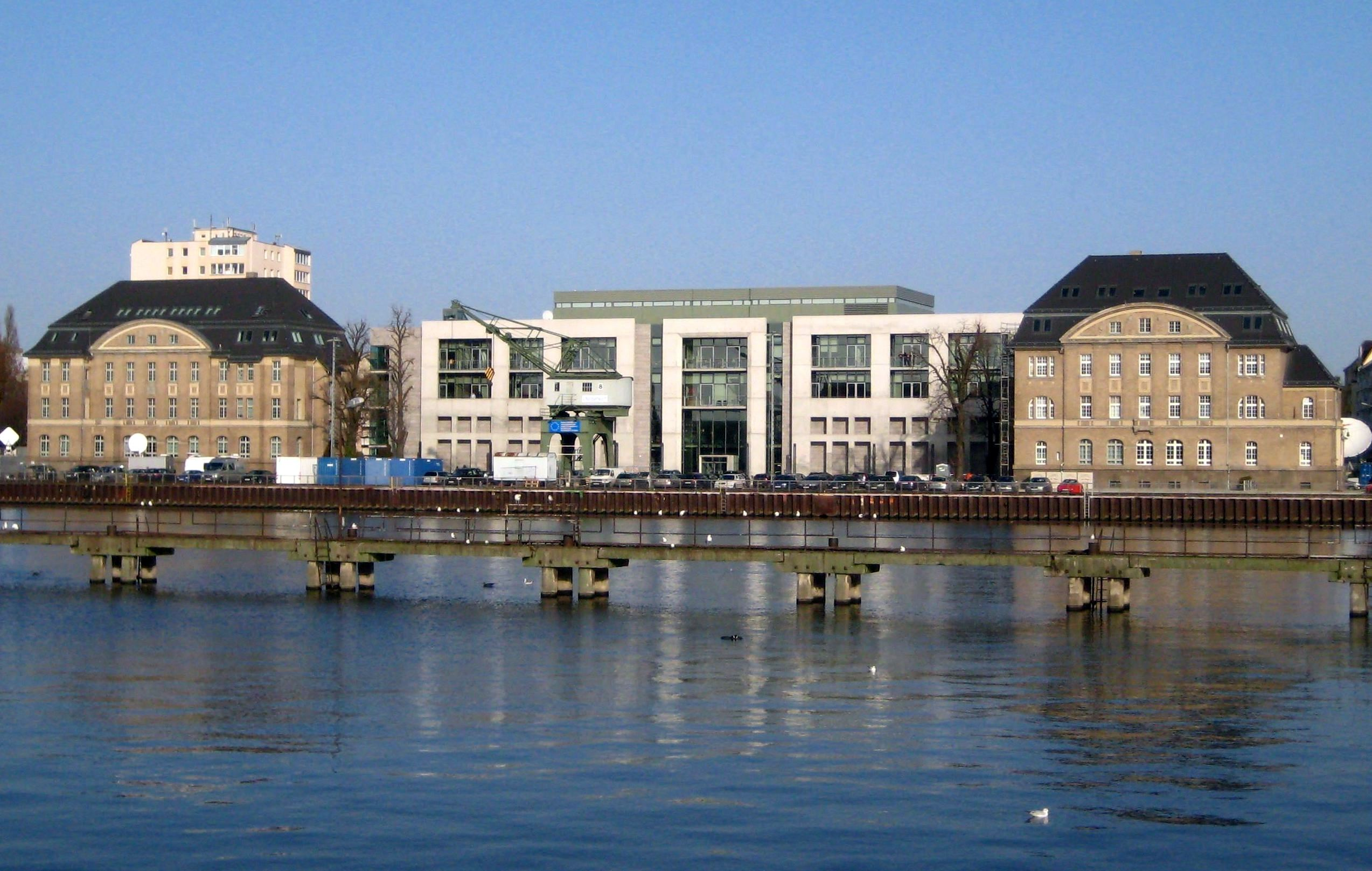 The former habor office (left) and the former harbor cafeteria (right) of Osthafen in Berlin, Stralauer Allee, borough of Friedrichshain. In between stands the new Fernsehwerft (TV Dockyard), built 2007-2009 to a design by the architectural office Dieter Hoffmann Architekten.